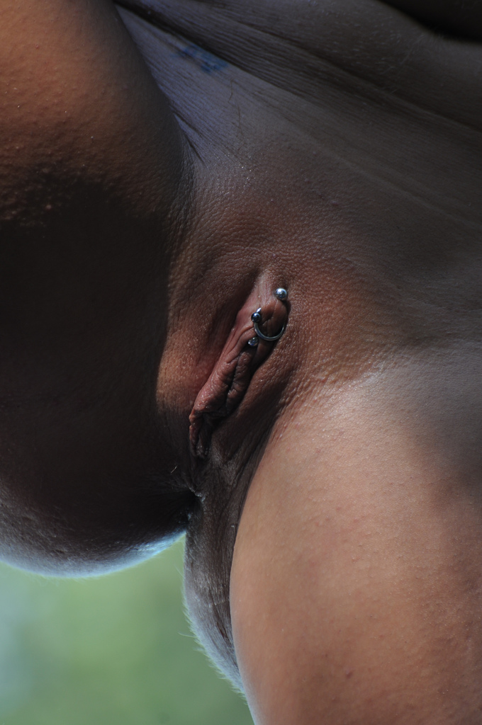 Vertical and horizontal clit hood piercing